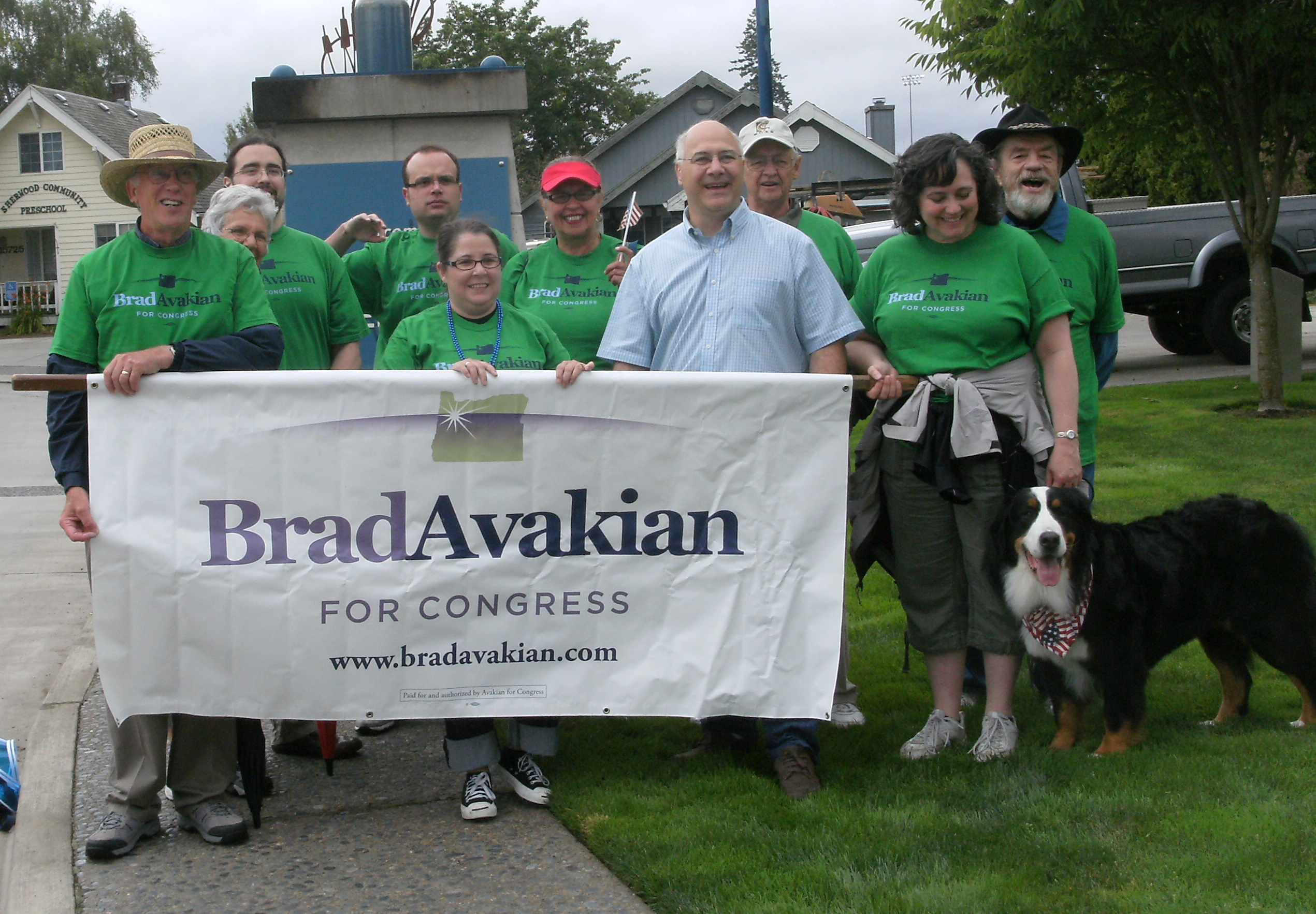 Brad Avakian for Congress supporters after the big parade in Sherwood, Oregon.